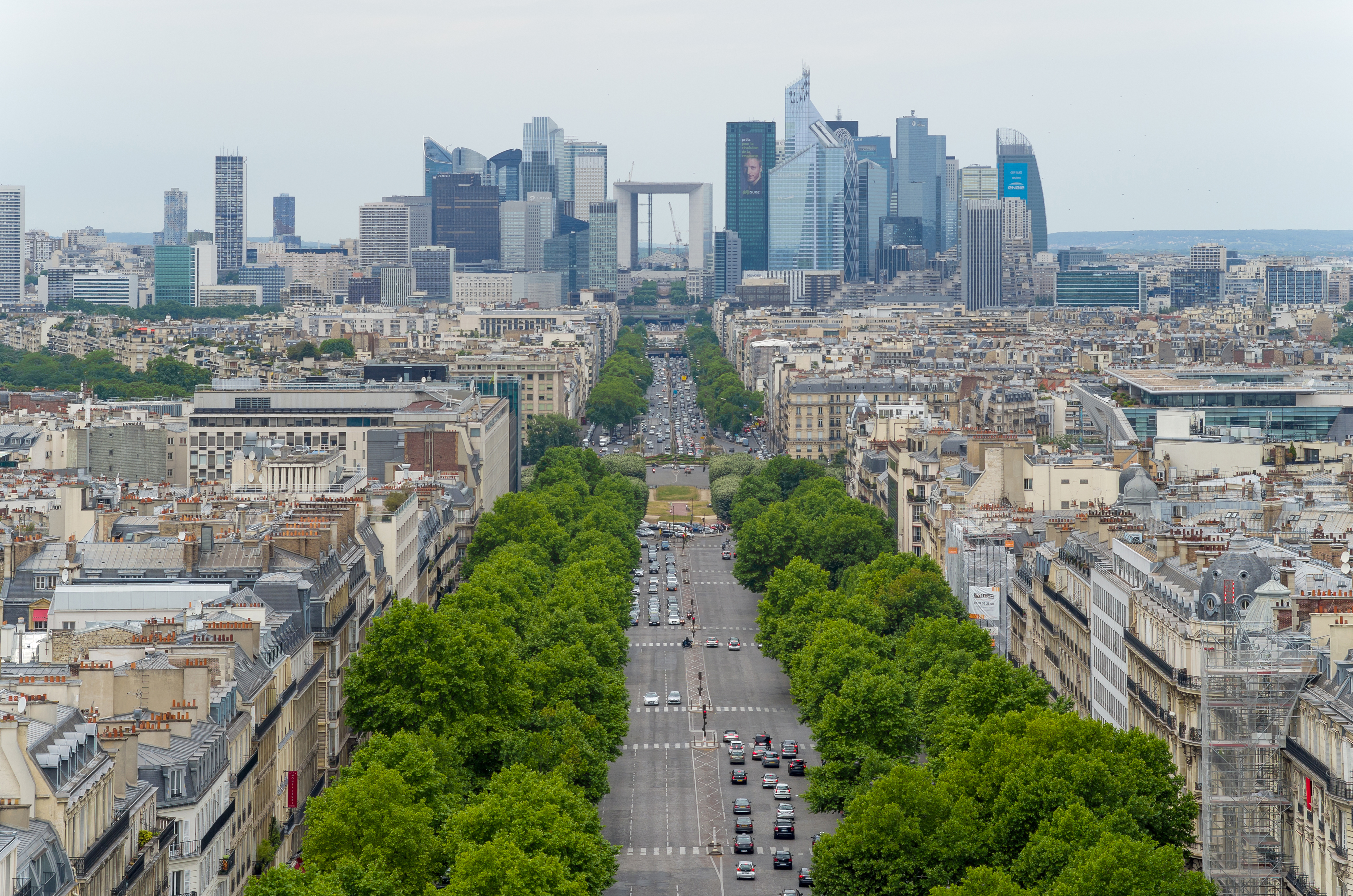 La Défense from the Arc de Triomphe, Paris.